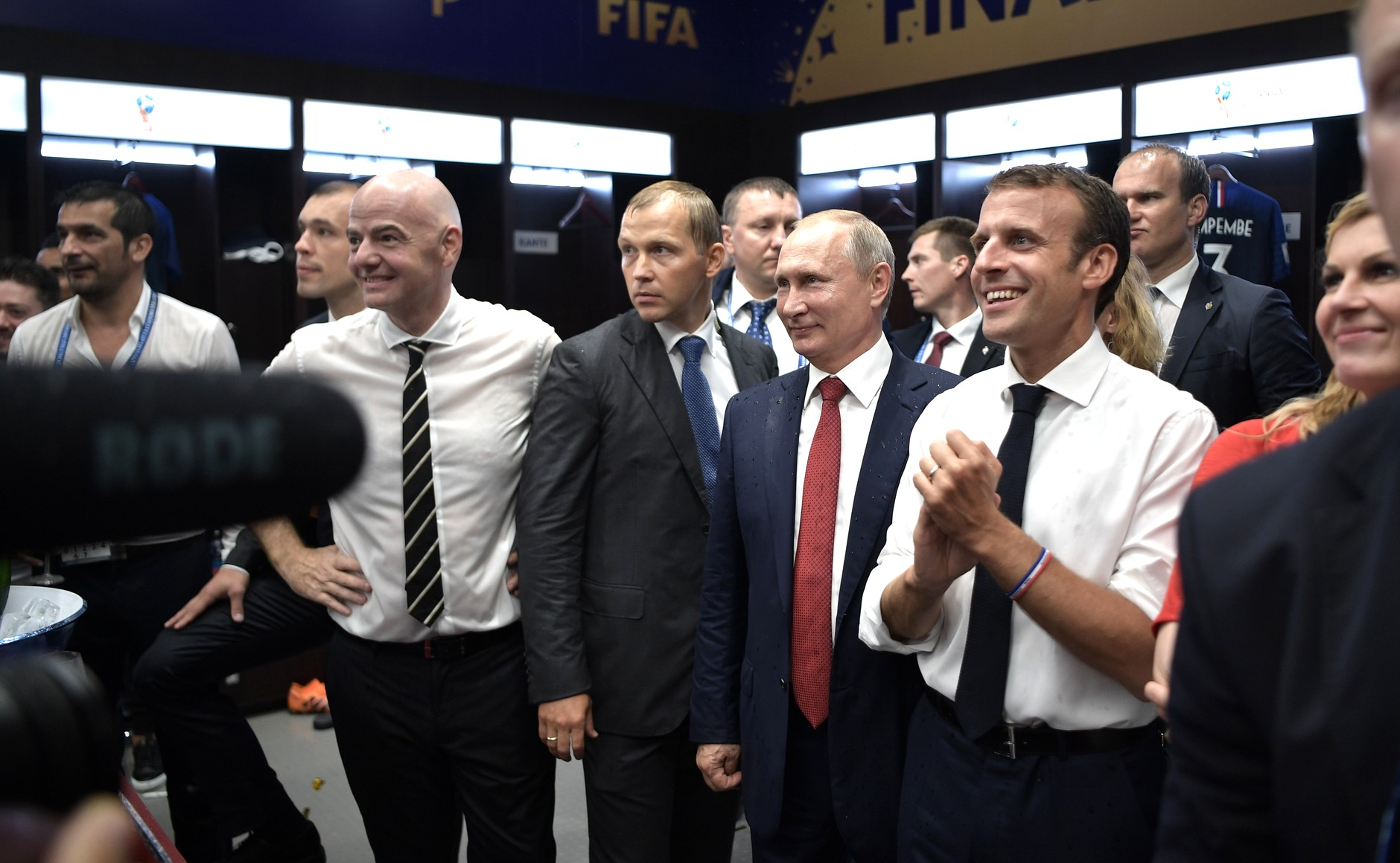 The President of FIFA Gianni Infantino (second from left), President of the Russian Federation Vladimir Putin (third from right) and President of France Emmanuel Macron (second from right), await to greet the France national football team, following their victory over the Croatia national football team in the 2018 FIFA World Cup Final. Infantino, Putin, and Macron, along with President of Croatia Kolinda Grabar-Kitarović, were there to spectate the match at Luzhniki Stadium per tradition.